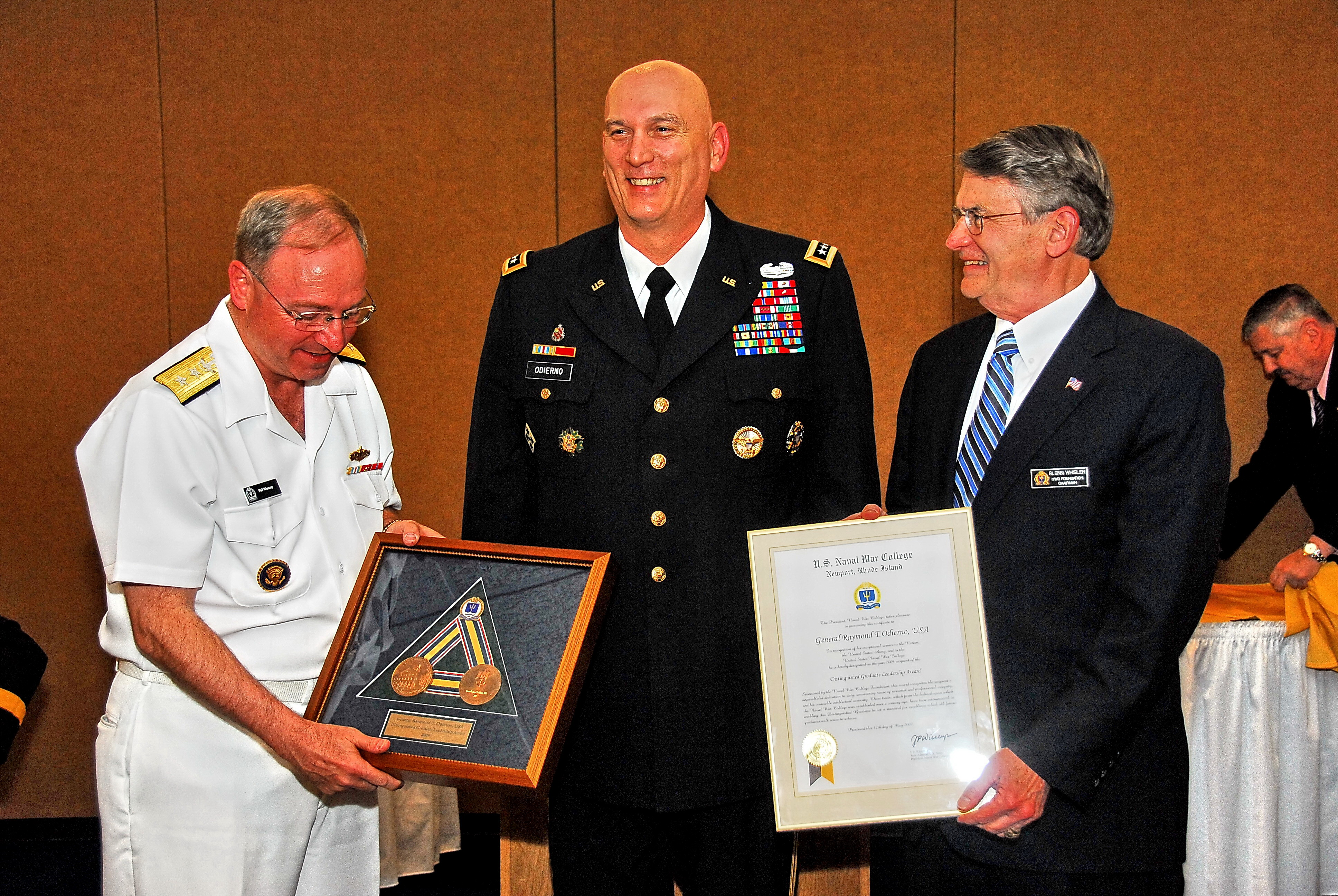 Rear Adm. James (Phil) Wisecup, President of the U.S. Naval War College and Rear Adm. (Ret) Glenn E. Whisler, Jr., Chairman, Naval War College Foundation Board of Trustees, present Army Gen. Raymond T. Odierno, Commander, Multi-National Force-Iraq and Operation Iraqi Freedom with the Naval War College Distinguished Graduate Leadership Award at the Naval Support Activity Washington.